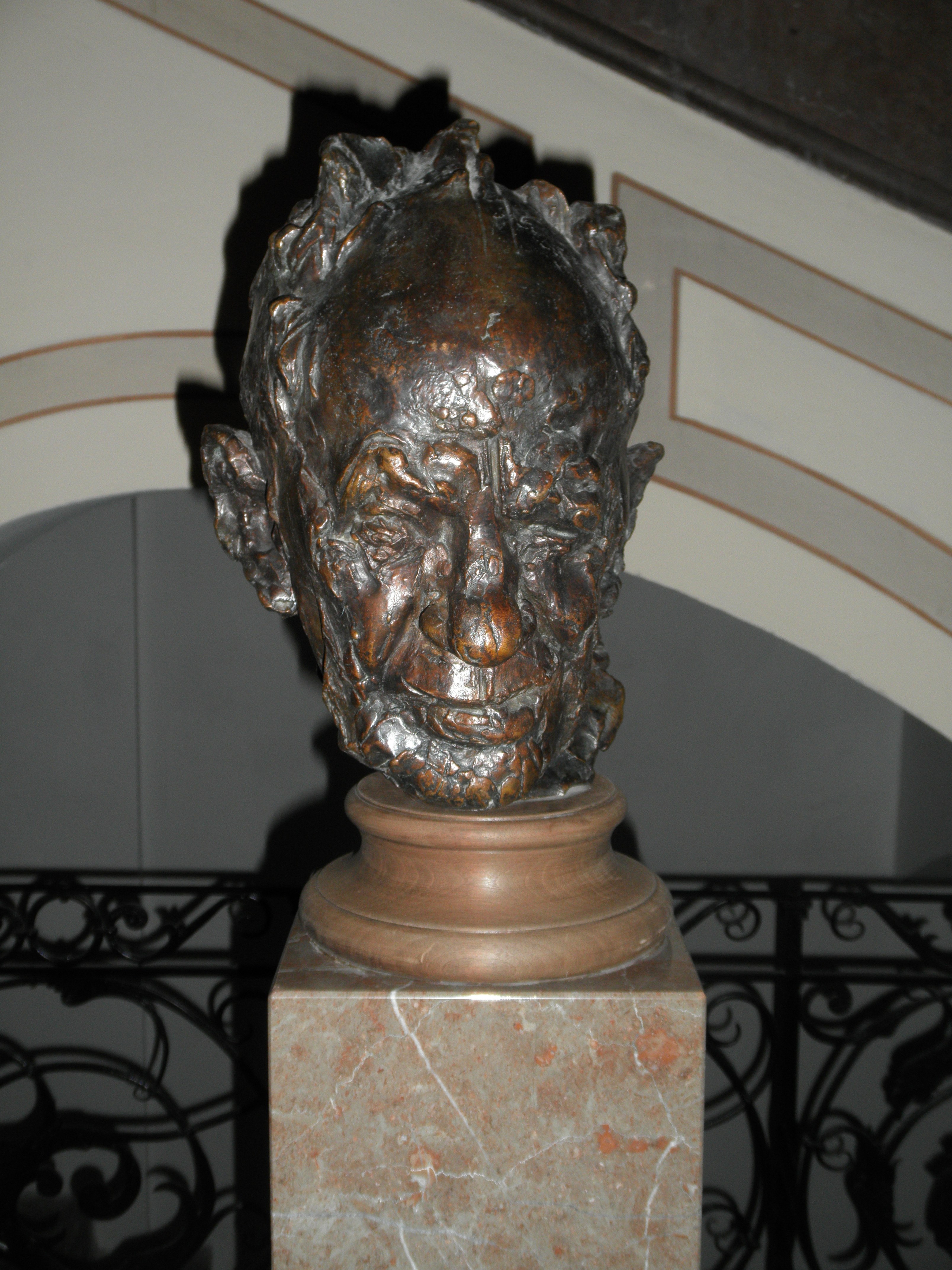 Bust of the Czech photographer Josef Sudek in town hall in Kolín. The bust was made by Stanislav Hanzík in 1972. The height of the bust is 38 cm.